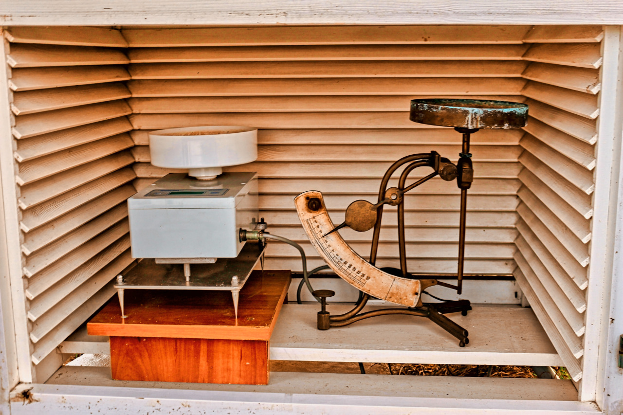 Weather station in Radzyń